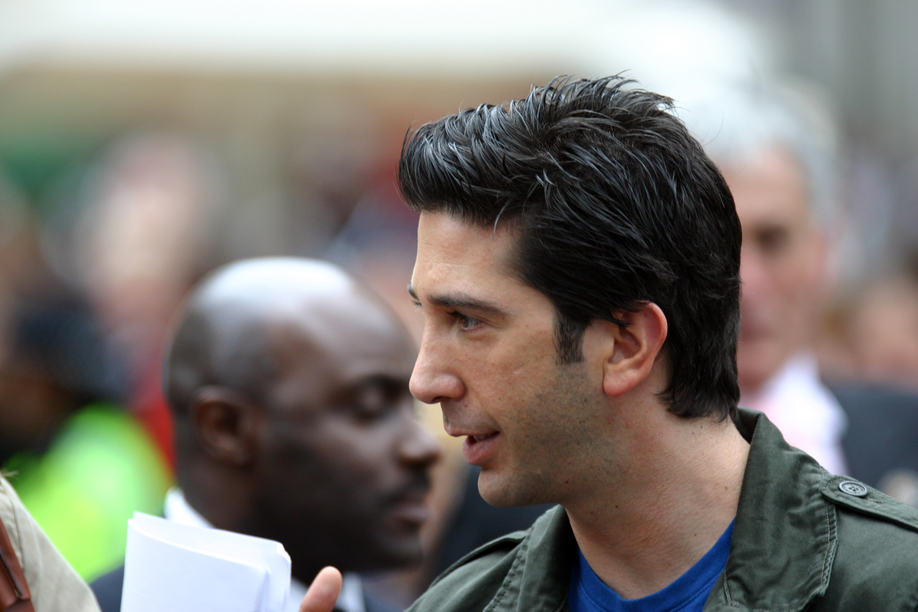 Andrea told me to take a picture of this guy with my paparazzi lens; apparently he's "famous". This photo now appears on the Wikipedia page for David Schwimmer.